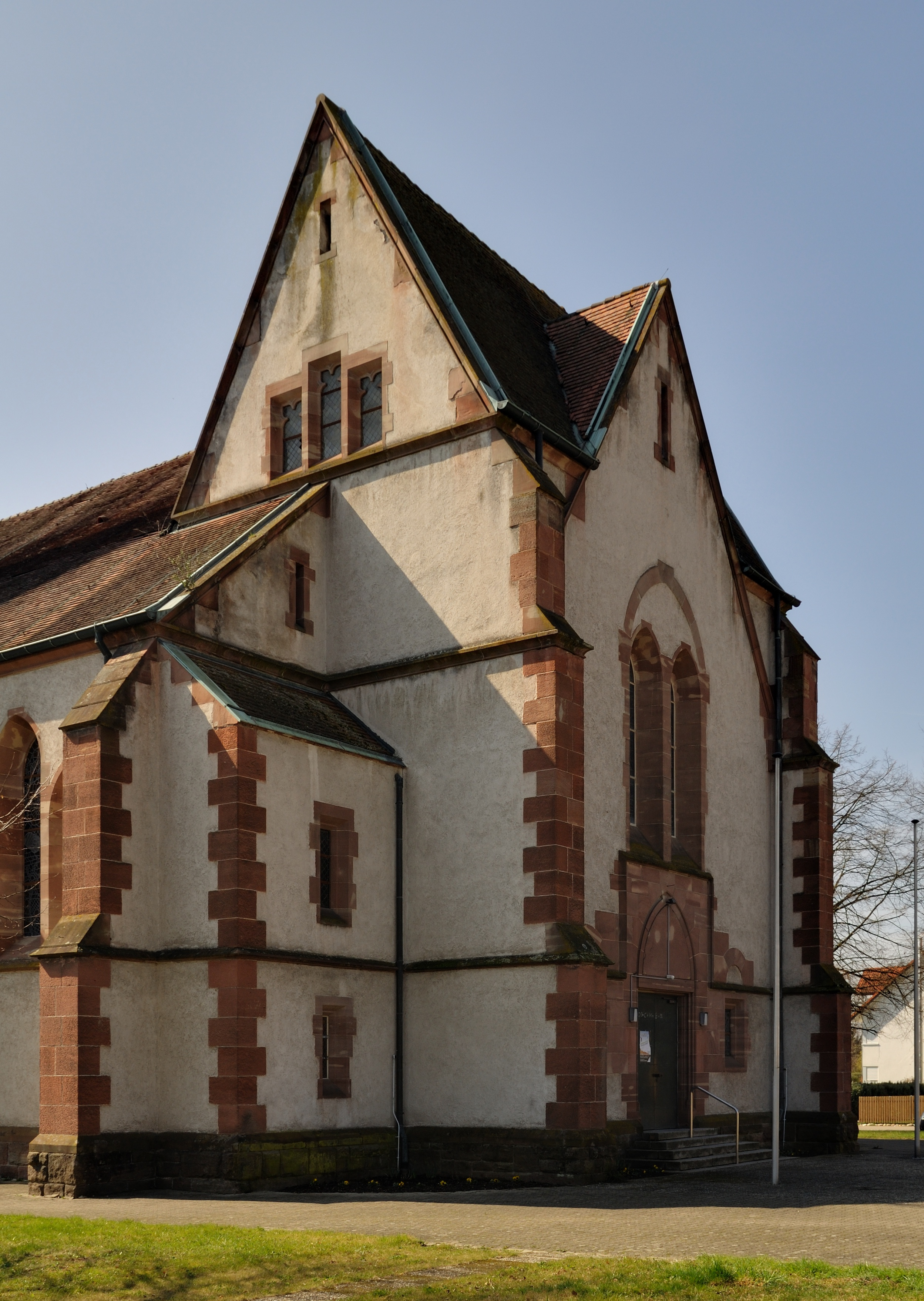 Wyhlen: Saint Georg Church, nave and main portal